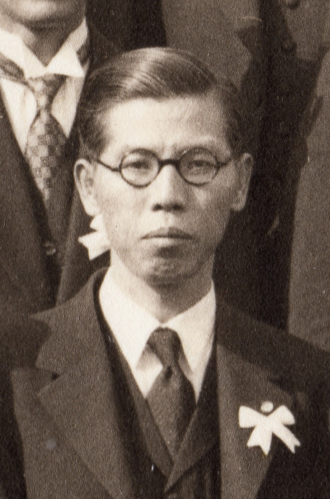 Hirokichi Nadao